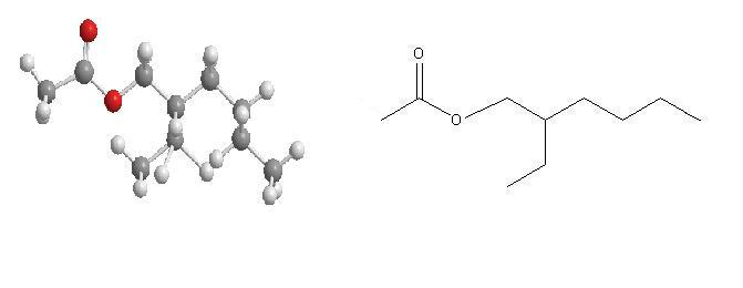 Acetate ester